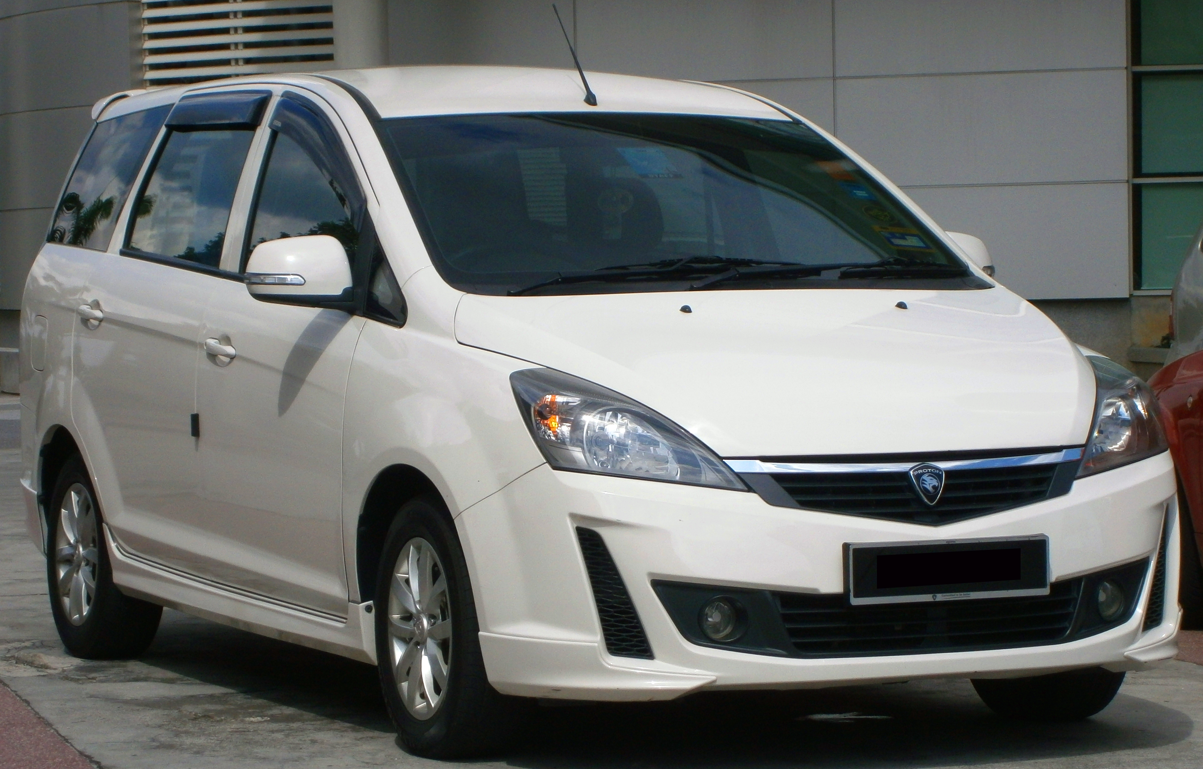 2013 Proton Exora Bold CFE Premium in Cyberjaya, Malaysia. Colour : Solid White Designed & Manufactured in Malaysia